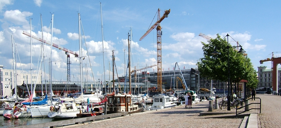 The marina at Lilla Bommen in Göteborg, Sweden, with a glimpse of a piece of art at the entrance of the Göteborg Opera House at the far right